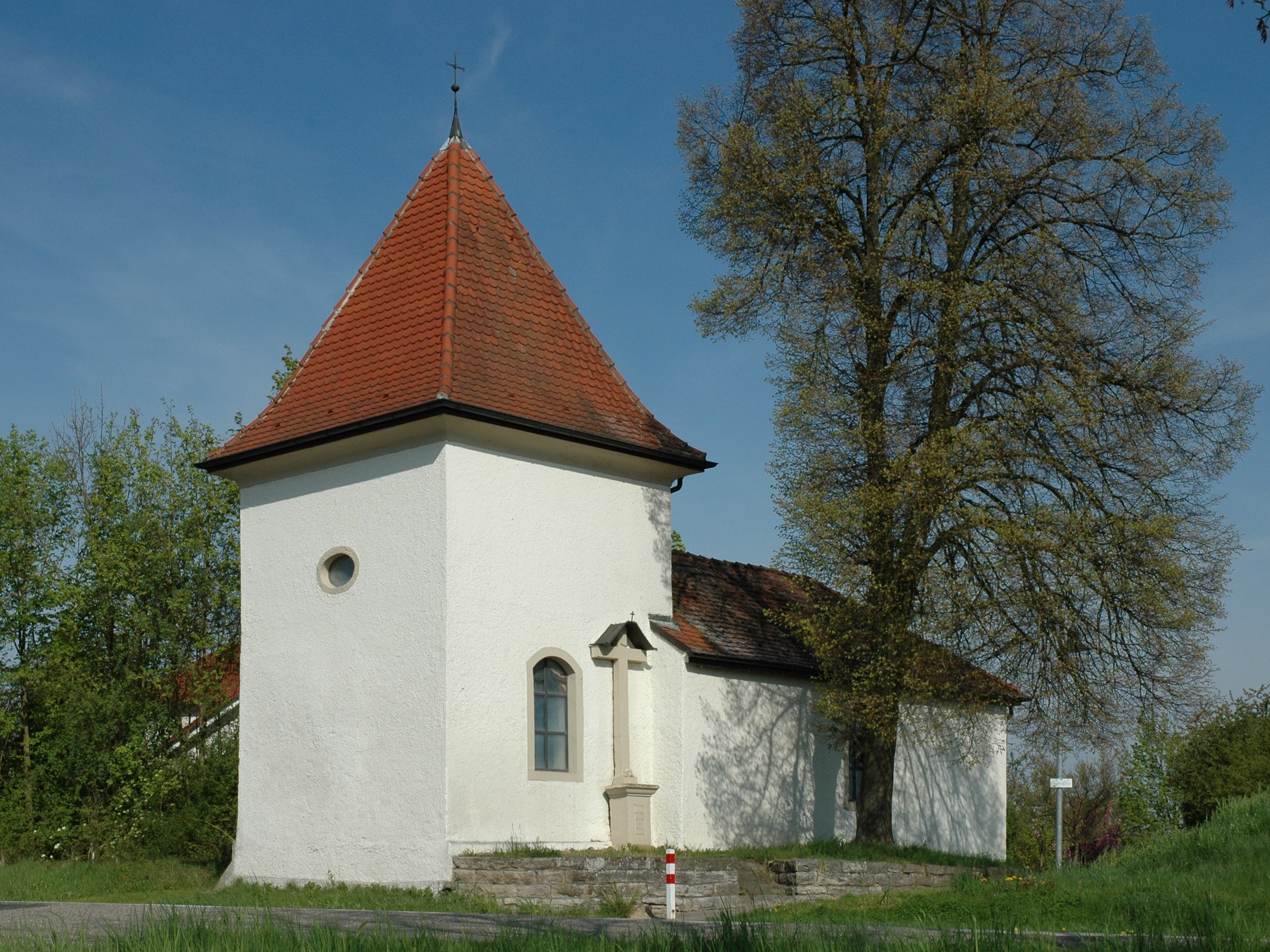 Trinity chappel in Oedheim